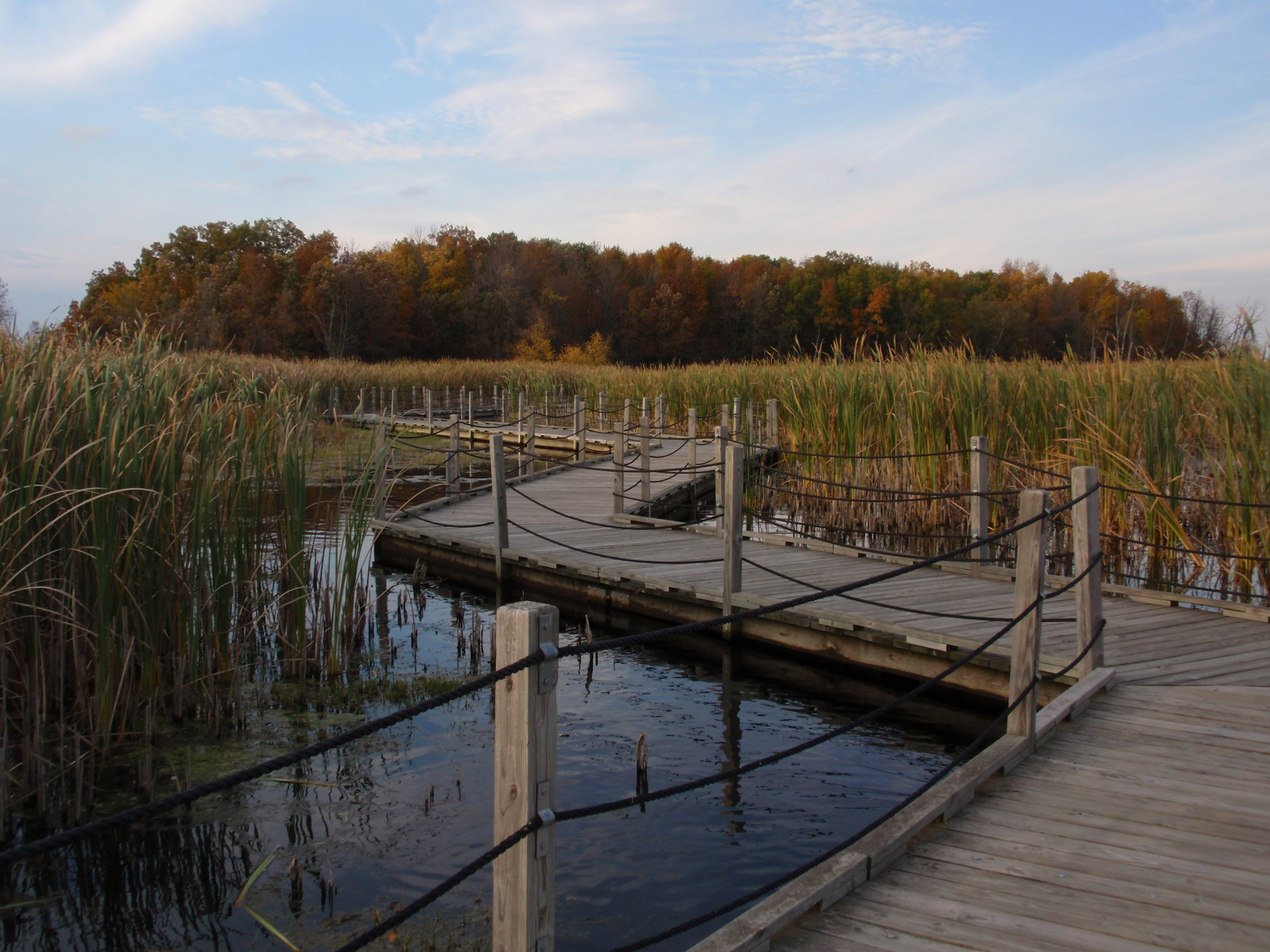 The Horicon Marsh in Wisconsin. Taken by User:Wonder al.